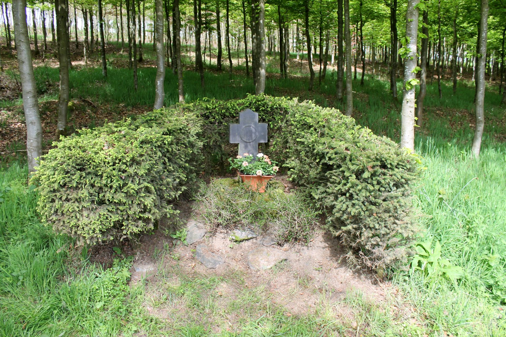 Boeur - The pilgrim's cross